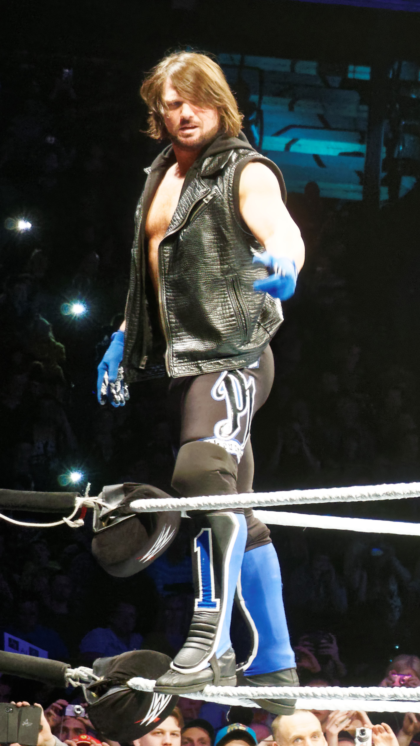 WWE Live WrestleMania Revenge AJ Styles def. Chris Jericho